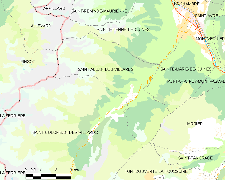 Map of French municipality